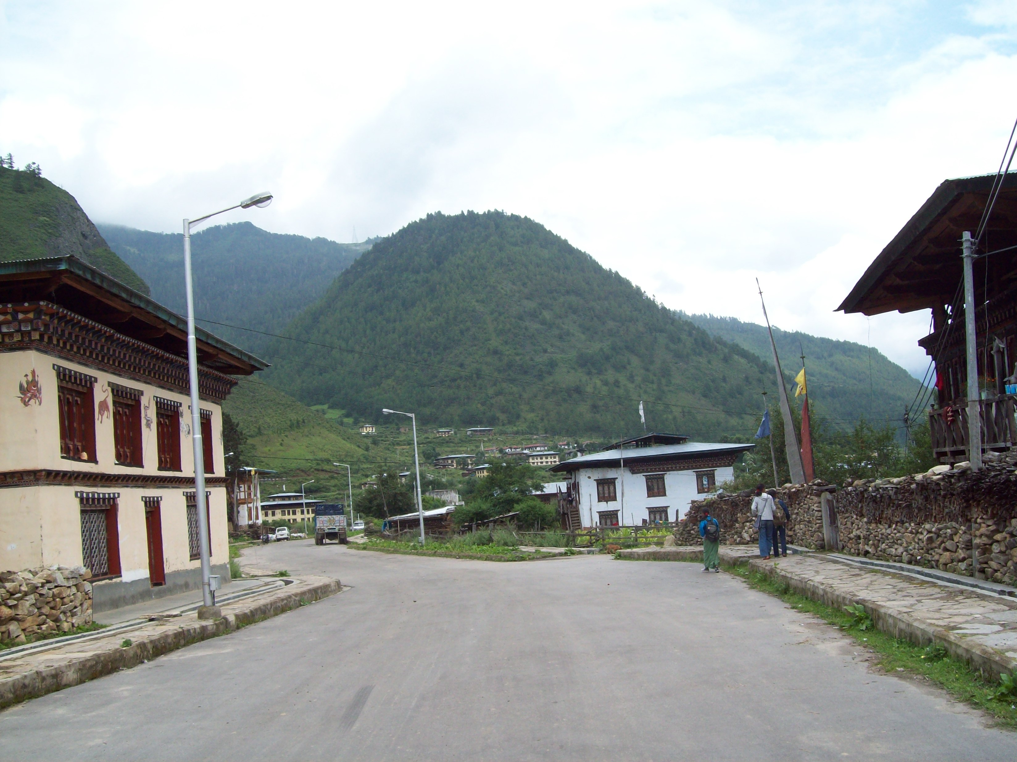 Streets are not crowded